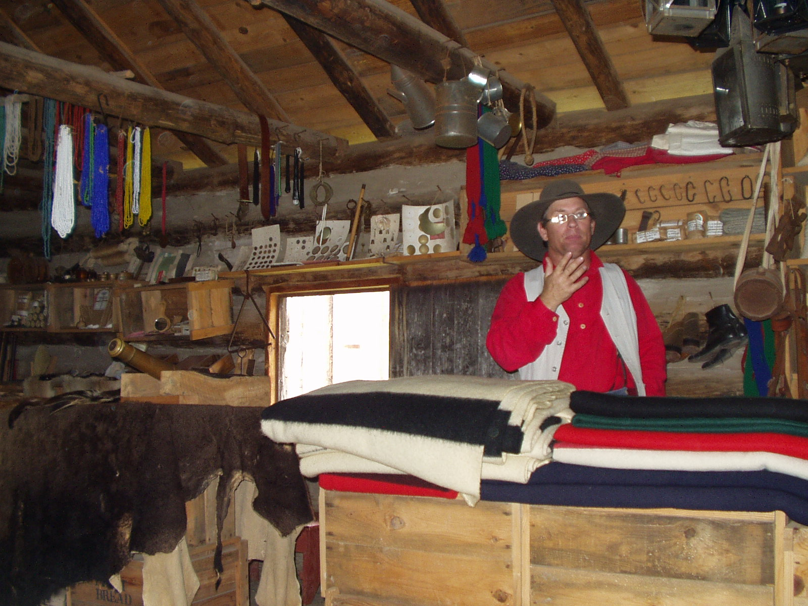 Trading Post living history re-enactor at Museum of the Great Plains, Lawton, OK. Taken with permission. User:pschemp